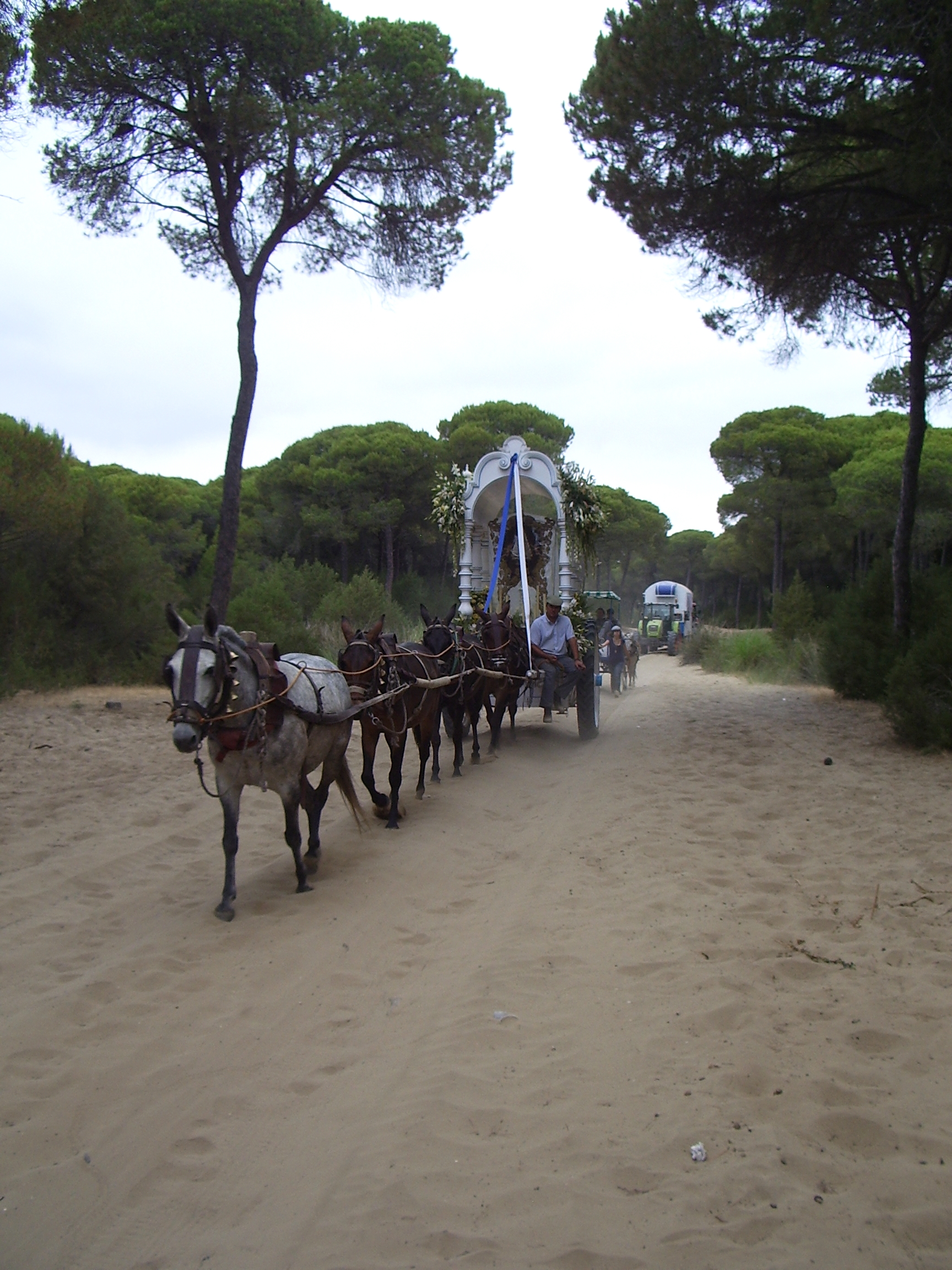 Simpecado crossing the Coto de Doñana, on the way back from the pilgrimage of El Rocío, May 2009.